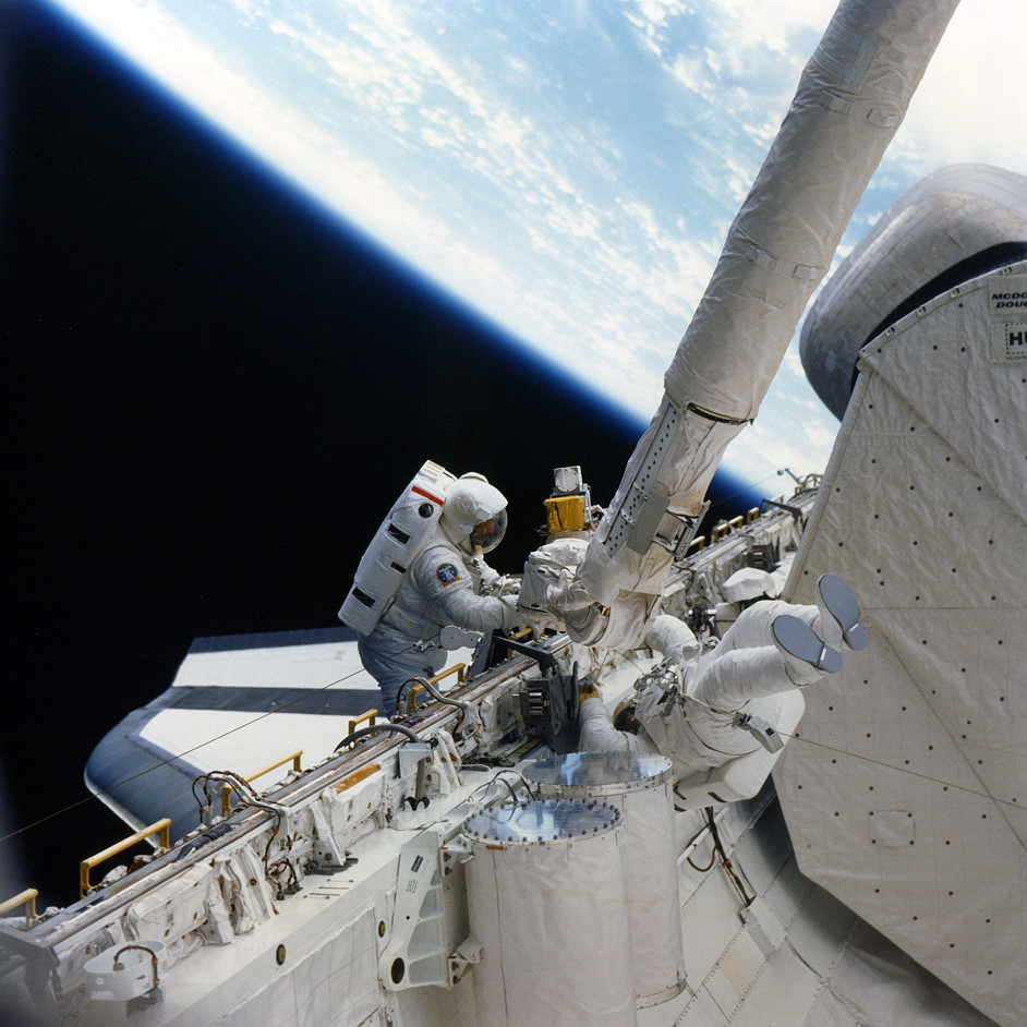 Astronauts Jeffery Hoffman and David Griggs attach the flyswatter device to the end of the RMS during STS-51-D. Astronauts S. David Griggs, left, and Jeffrey A. Hoffman join efforts to fasten one of two snag type devices on the end of the Canadian-built remote manipulator system (RMS) arm of the Shuttle Discovery. A partial view of the Earth's horizon can be seen behind the shuttle.